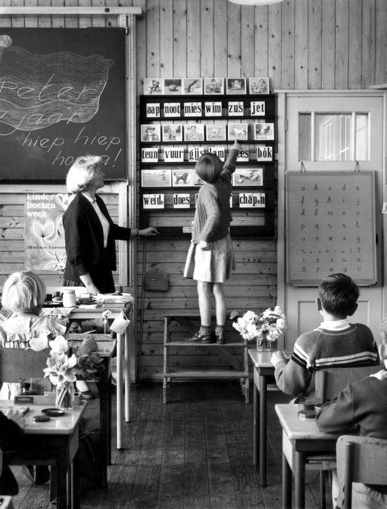 Nationaal Archief / Spaarnestad Photo / H. Hilterman, SFA001010771. Schoollokaal van een lagere school. Lerares en leerling bij een Aap-Noot-Mies bord (een vergroot leesplankje). Nederland, 1968. Primary school / elementary school. Teacher and pupil at an enlarged primer in the classroom. The Netherlands, 1968. Collectie Spaarnestad Voor meer informatie en voor meer foto’s uit de collectie van Spaarnestad Photo, bezoek onze Beeldbank: U kunt ons helpen onze kennis van de fotocollecties te verrijken door tags en commentaren toe te voegen. Herkent u mensen of locaties of heeft u een bijzonder verhaal te vertellen bij één van de foto’s, laat dan een reactie achter (als u ingelogd bent bij Flickr) of stuur een mailtje naar: You can help us gain more knowledge on the content of our collection by simply adding a comment with information. If you do not wish to log in, you can write an e-mail to